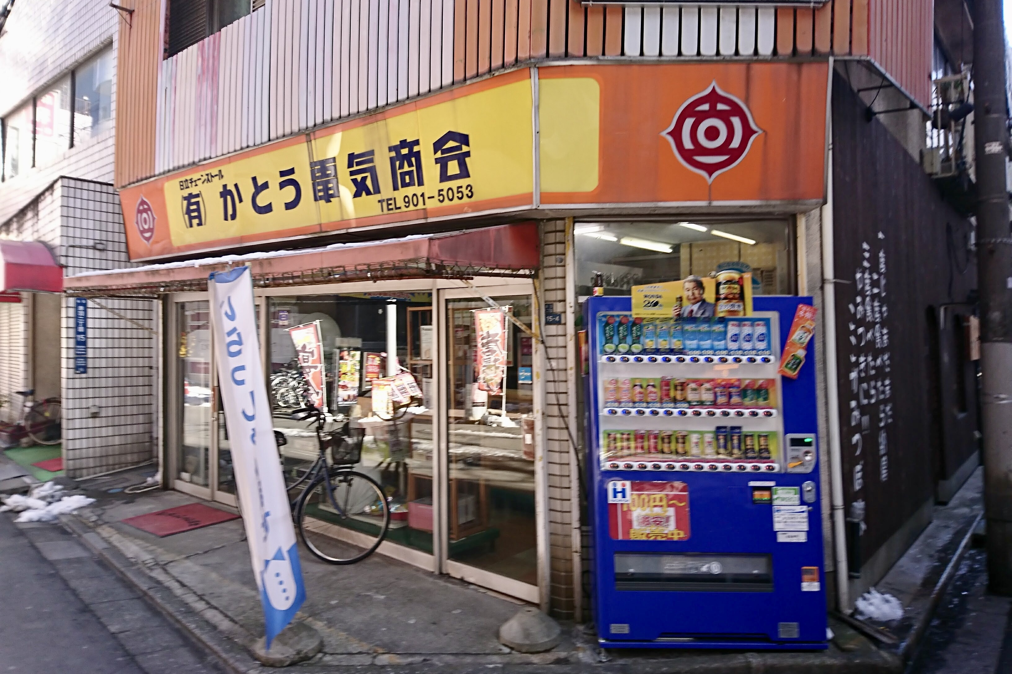 Hitachi Chain Store